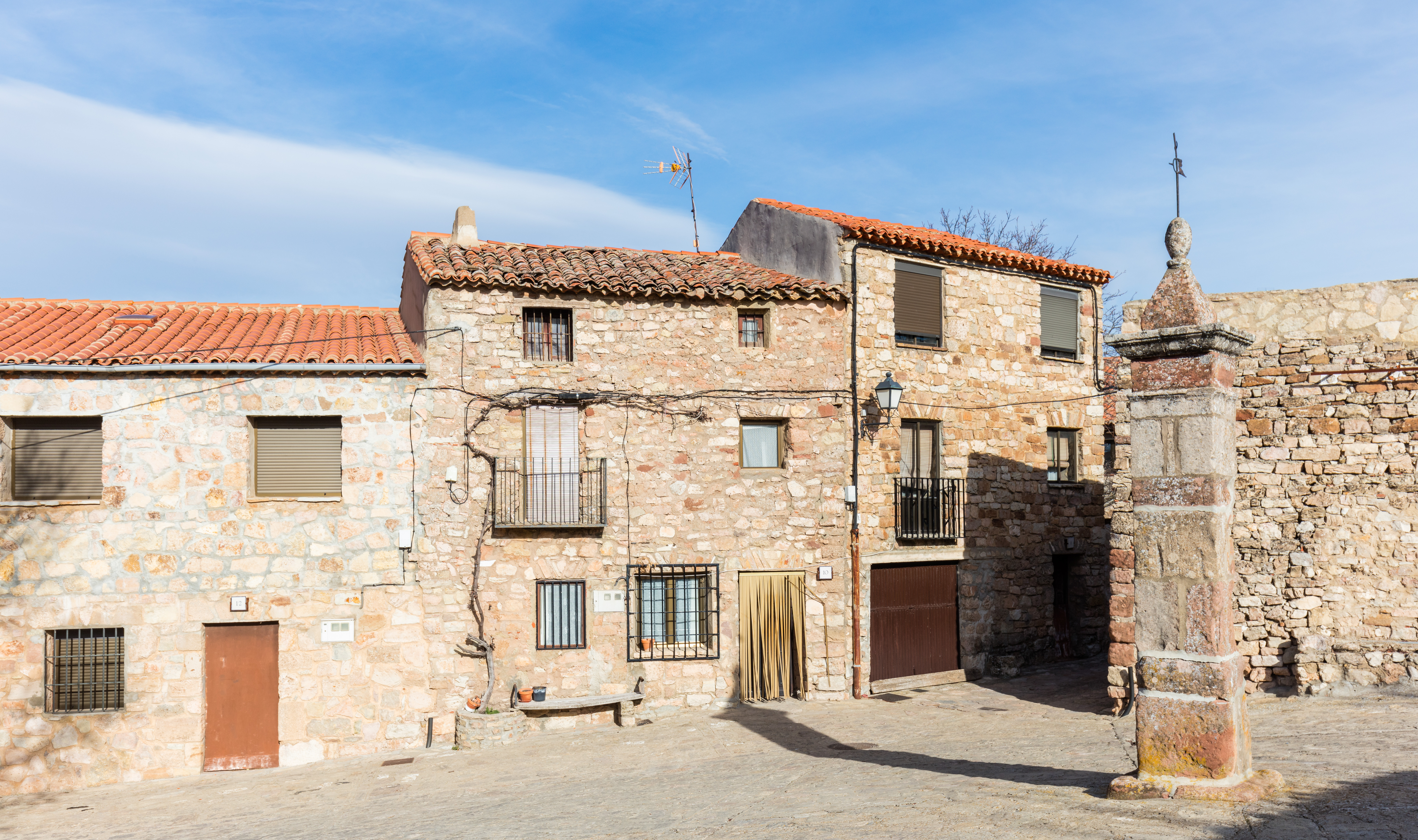 Cross in Gil St., Medinaceli, Soria, Spain